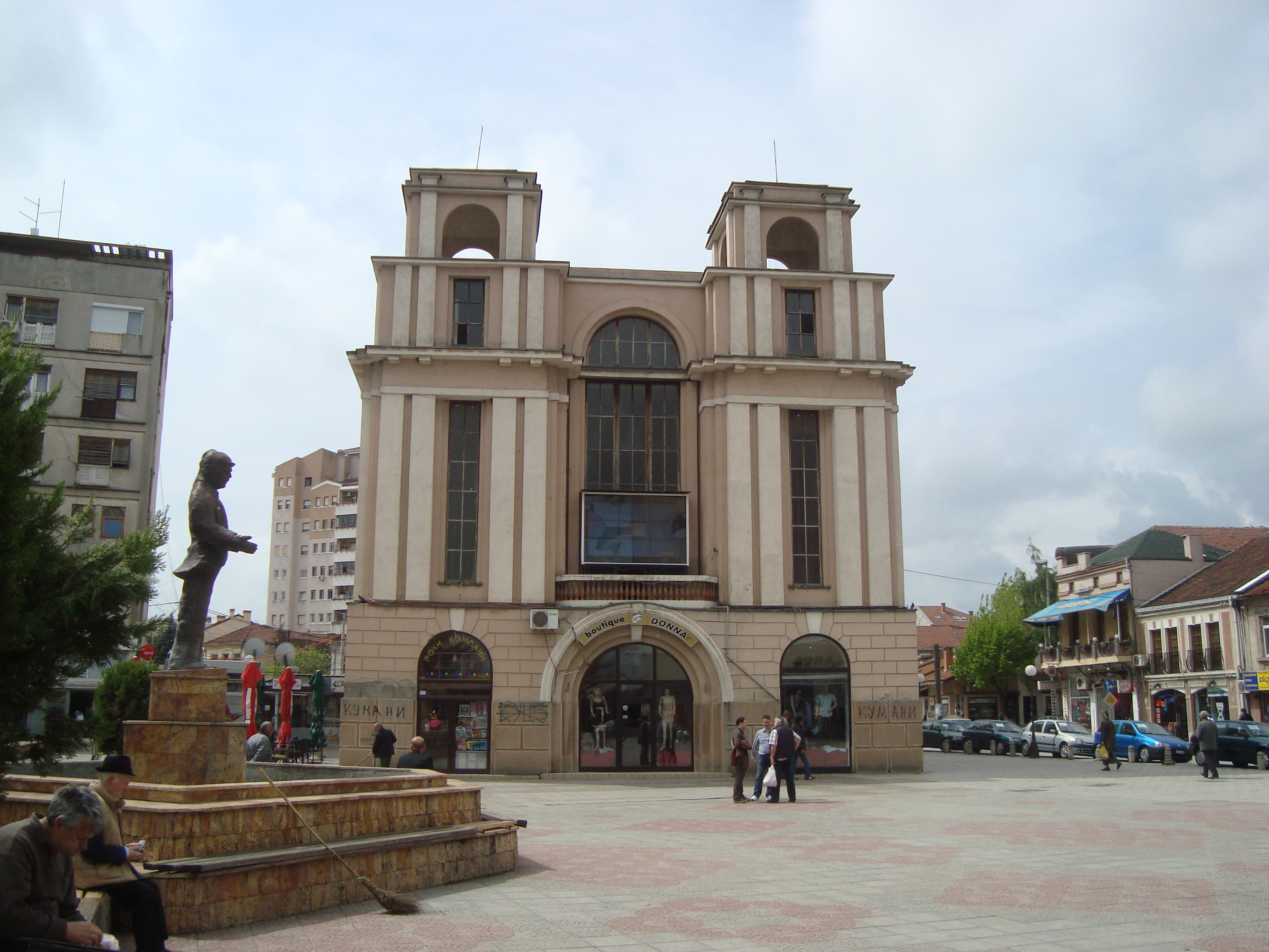 City Square, Kumanovo, Macedonia.